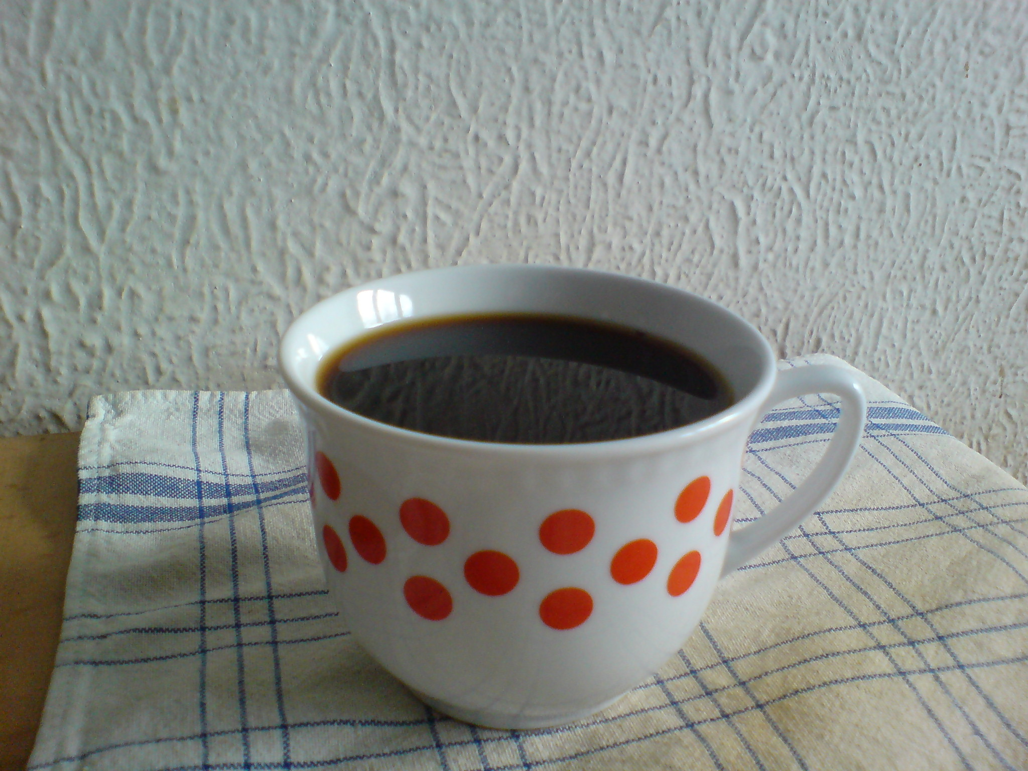 cup of melta - a coffee ersatz